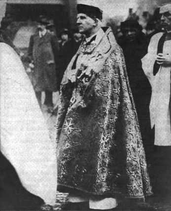 The Archbishop of York, Cosmo Gordon Lang, walks with the Knights of St. John of Jerusalem near St. John's Church, Clerkenwell, London; Lang is also Prelate of the Order.